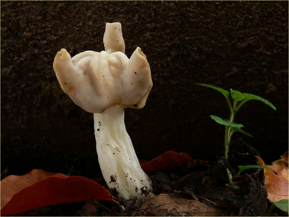 Herbstlorchel (Helvella crispa)